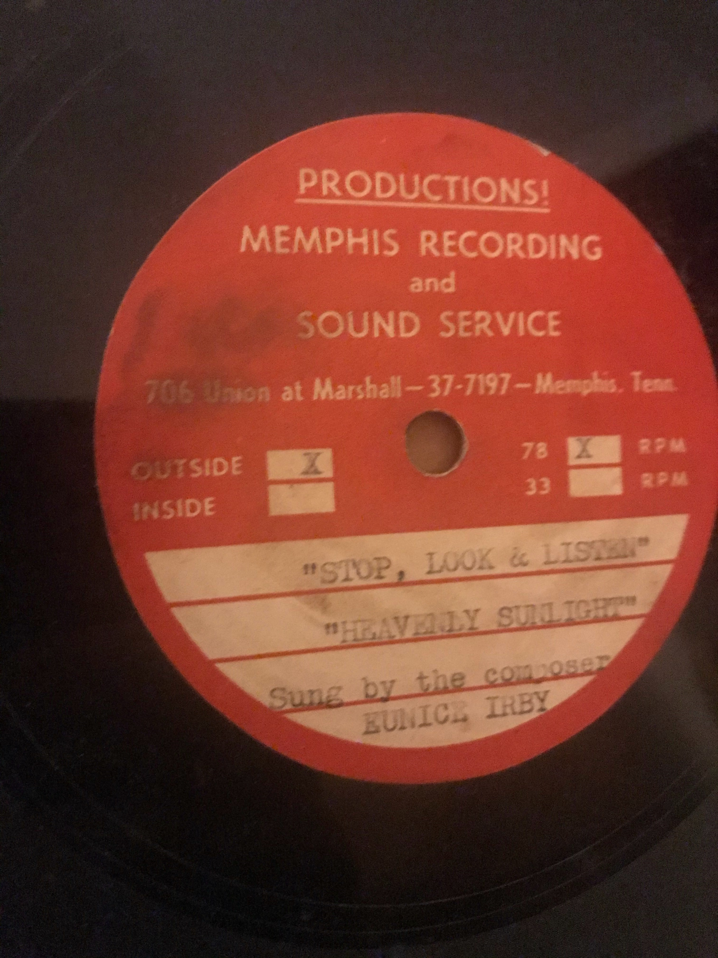 This label is on a demo record produced in Memphis at Sam Phillips studio. Eunice Irby, the composer and performer, lived in Grenada, Mississippi and recorded several demo records in the early 1950's. Her daughter Stella Beatrice Irby was married to Edwin Ellis